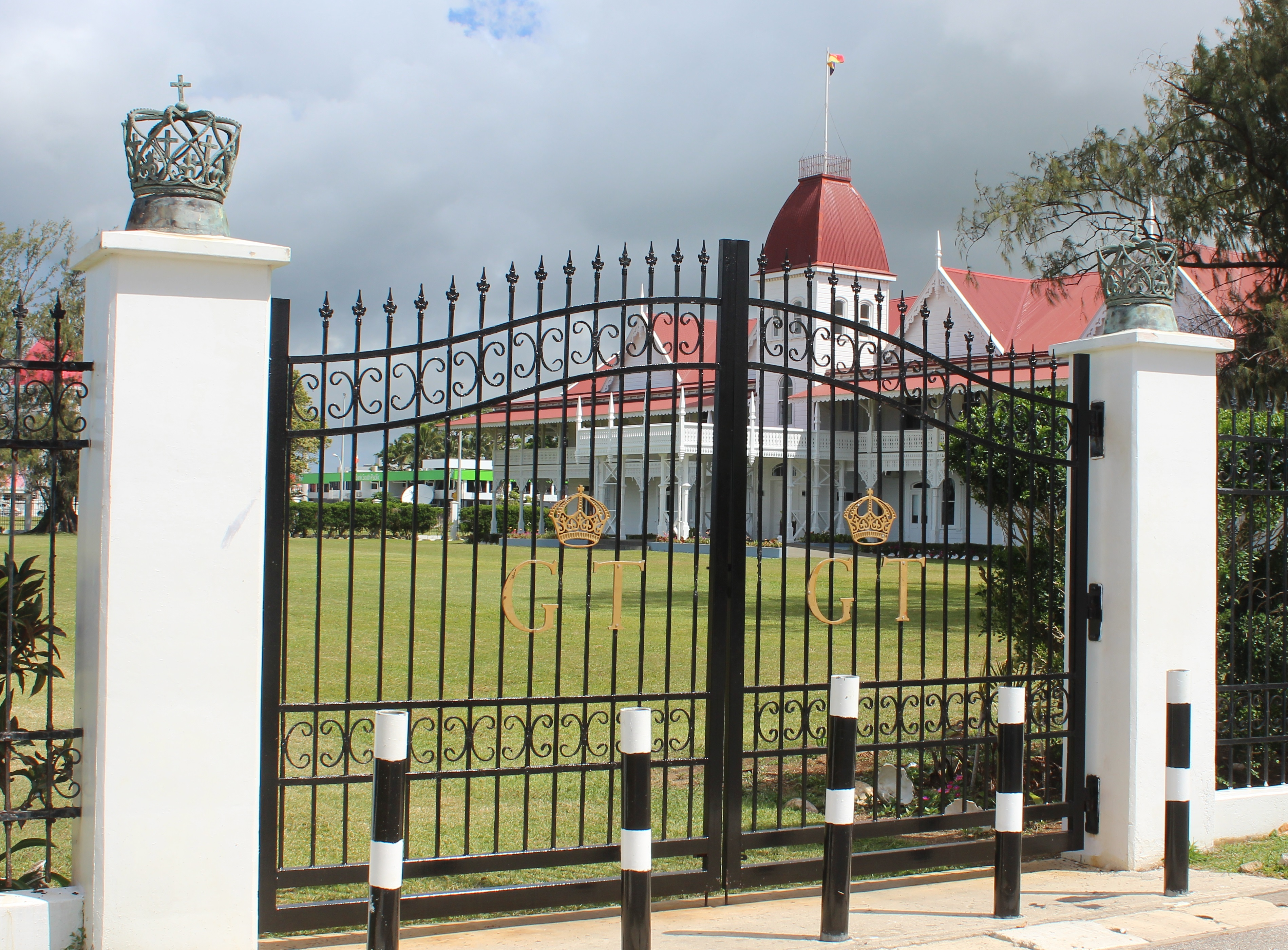 Royal Palace, Nuku'alofa, Tonga